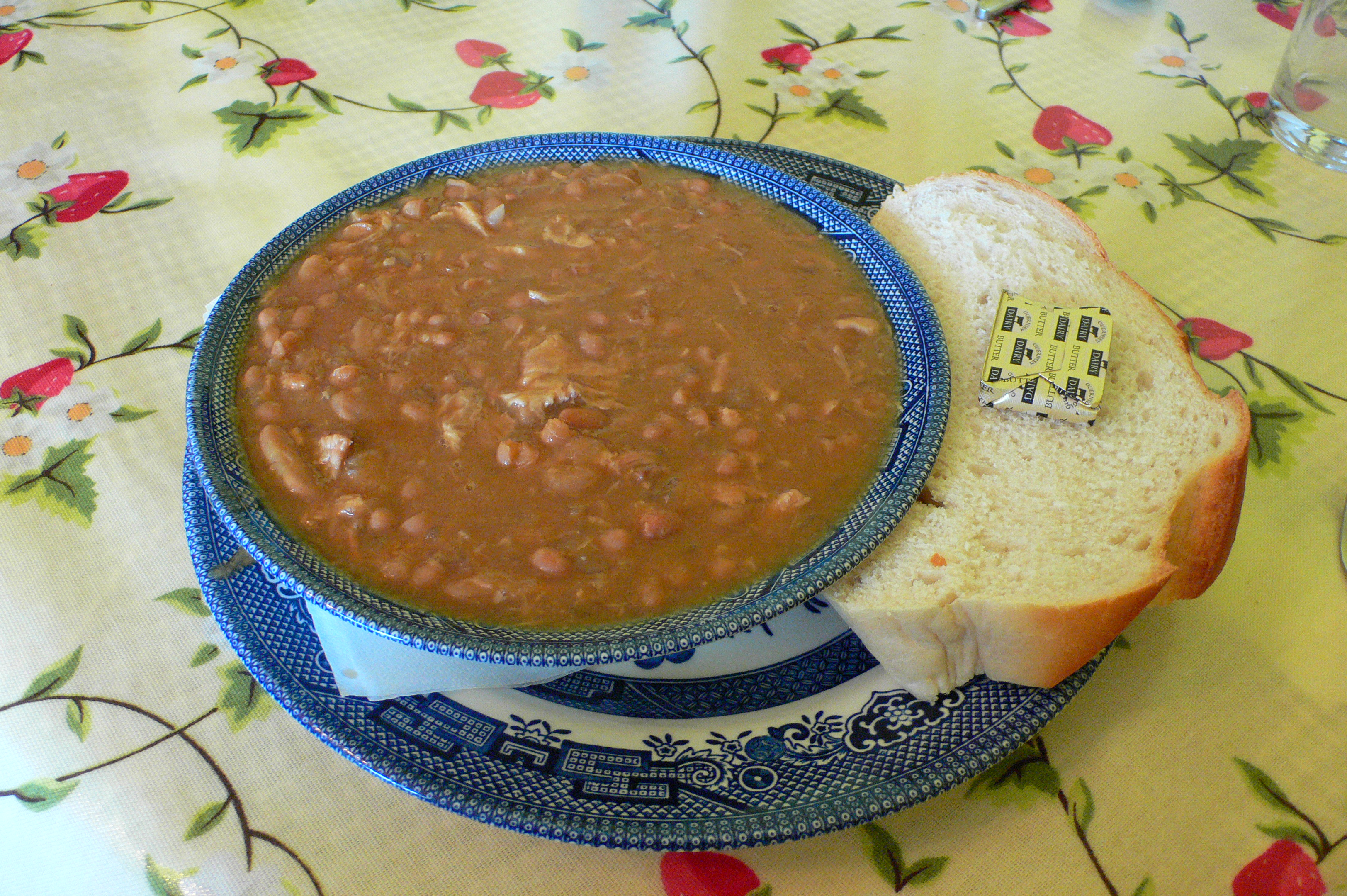 Bean Jar at the Cobo Bay Tearooms on Guernsey. Bean Jar (guernésiais : enne Jarraie d'Haricaots